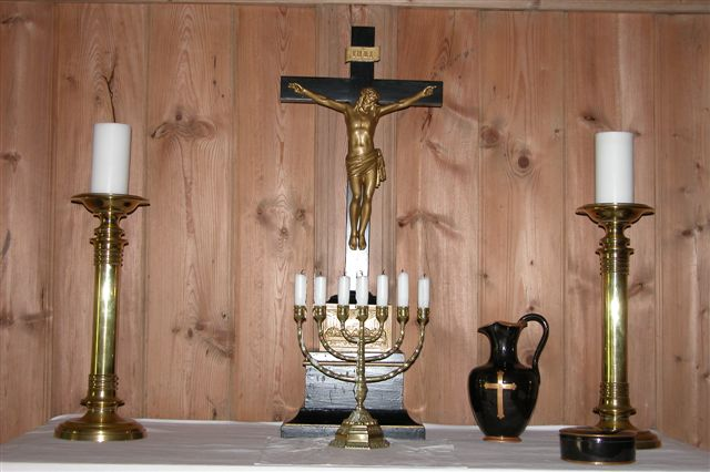 Church of Saksun